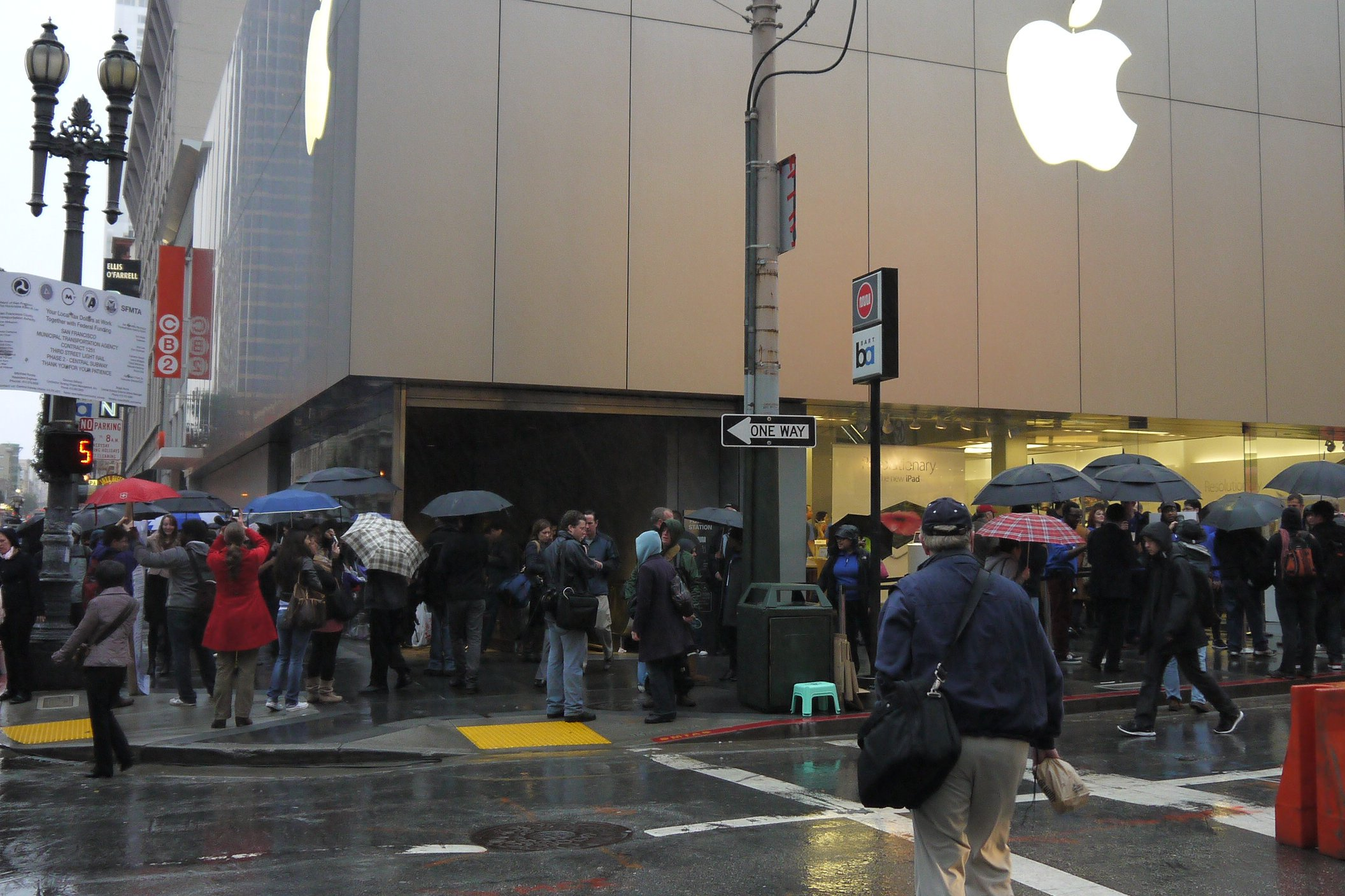 Apple Store line for the iPad 3 in San Francisco